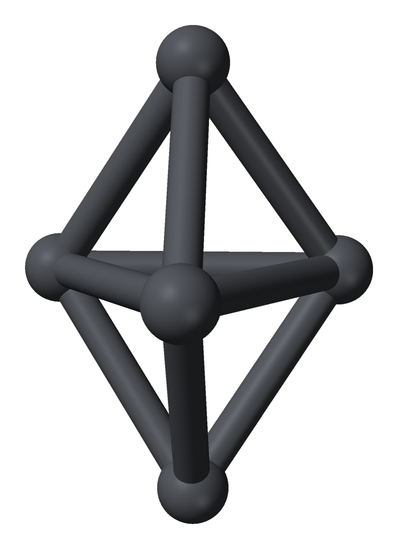 Ball-and-stick model of the pentaplumbide anion, [Pb5]2−, as found in the crystal structure of [Na(crypt)]2[Pb5]. X-ray crystallographic data from Inorg. Chem. (1977) 16, 903–907. Model constructed in CrystalMaker 8.1. Image generated in Accelrys DS Visualizer.